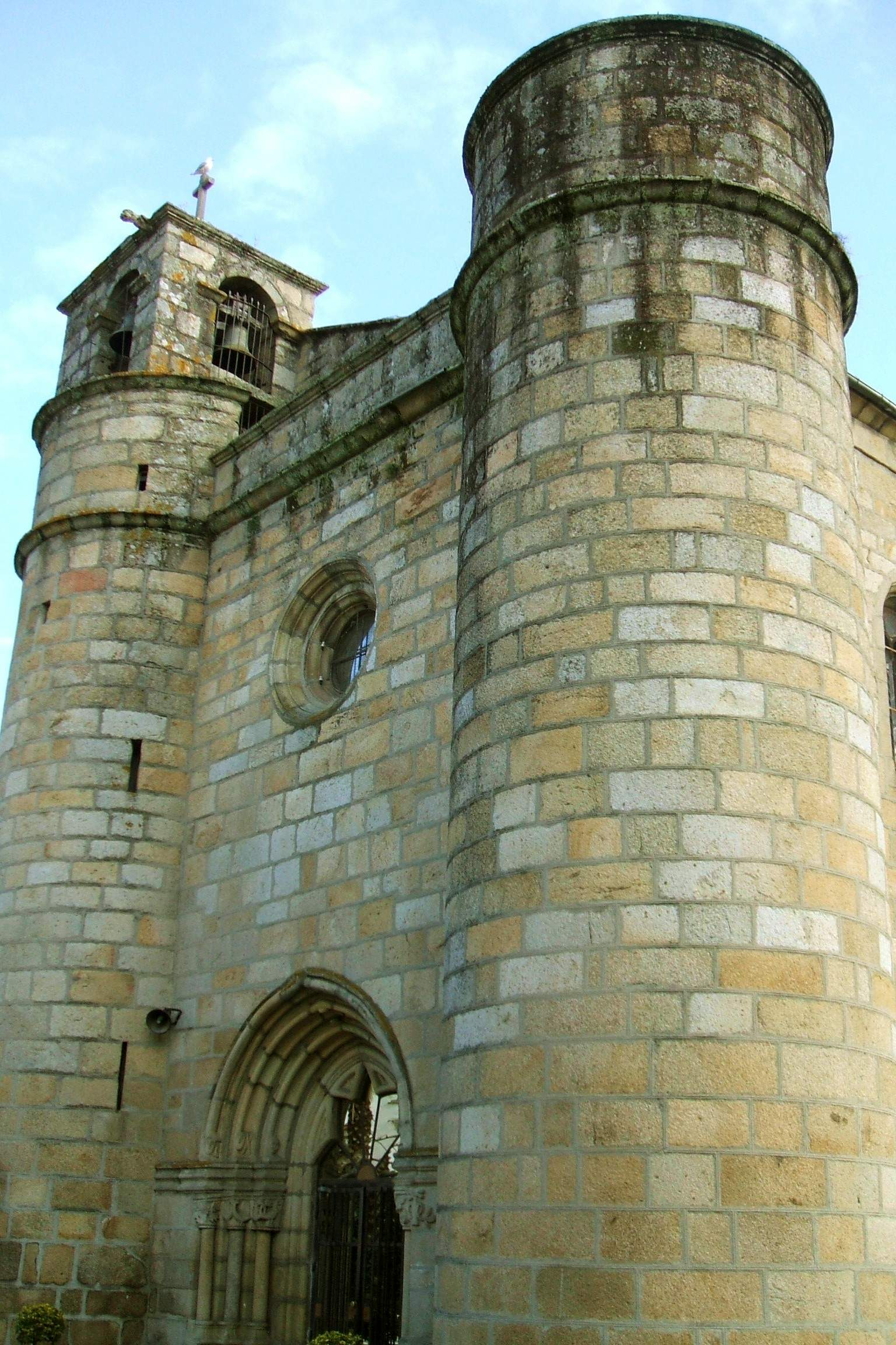 Portada occidental de la Iglesia de la Santísima Trinidad, Orense, Galicia, España